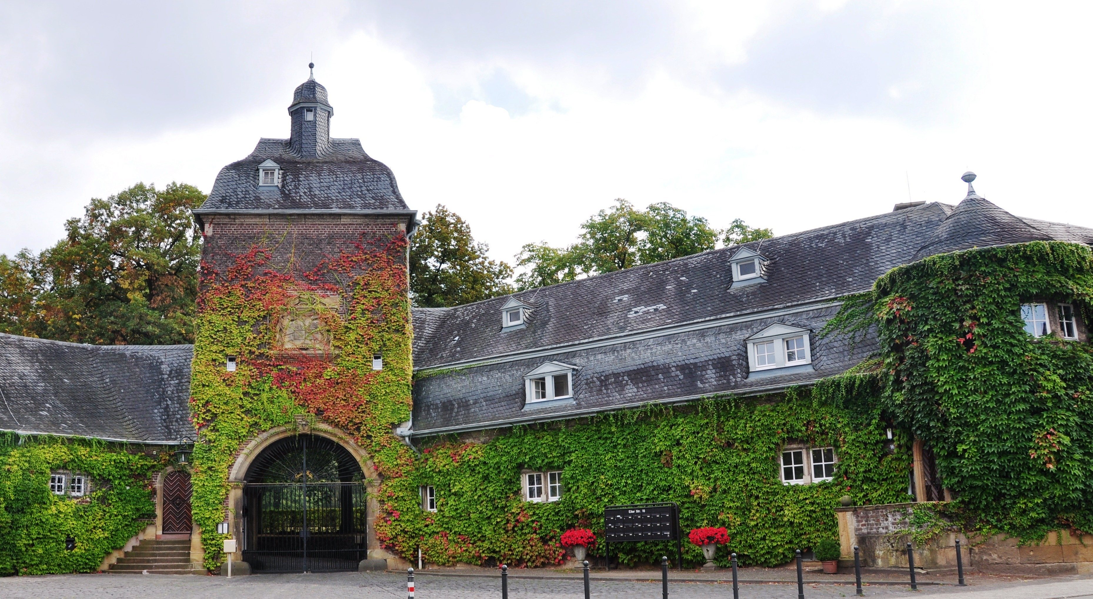 I have published this image as author under the Creative-Commons-License CC-by-sa 4.0. This means that free usage outside of Wikimedia projects under the following terms of licence is possible: 1.1 The image is credited with “Nicola, Wikimedia Commons, CC-by-sa 4.0” If this is not possible due to shortage of space, please contact me first. 1.2 If possible, weblinks to the original image and to the licence would be great: “Nicola Wikimedia Commons, CC-by-sa 4.0” I would be happy to receive a specimen copy or the URL of the website where the image is used. Please write an email to , if you need my postal address for sending a specimen copy have further questions to the terms of licence Attribution: Nicola, Wikimedia Commons, CC-by-sa 4.0